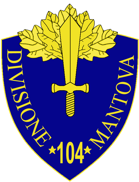 104a Divisione Fanteria Mantova insignia, Regio Esercito, Italy, WWII